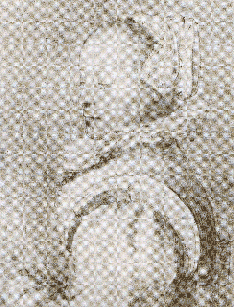 Portrait of a young woman.